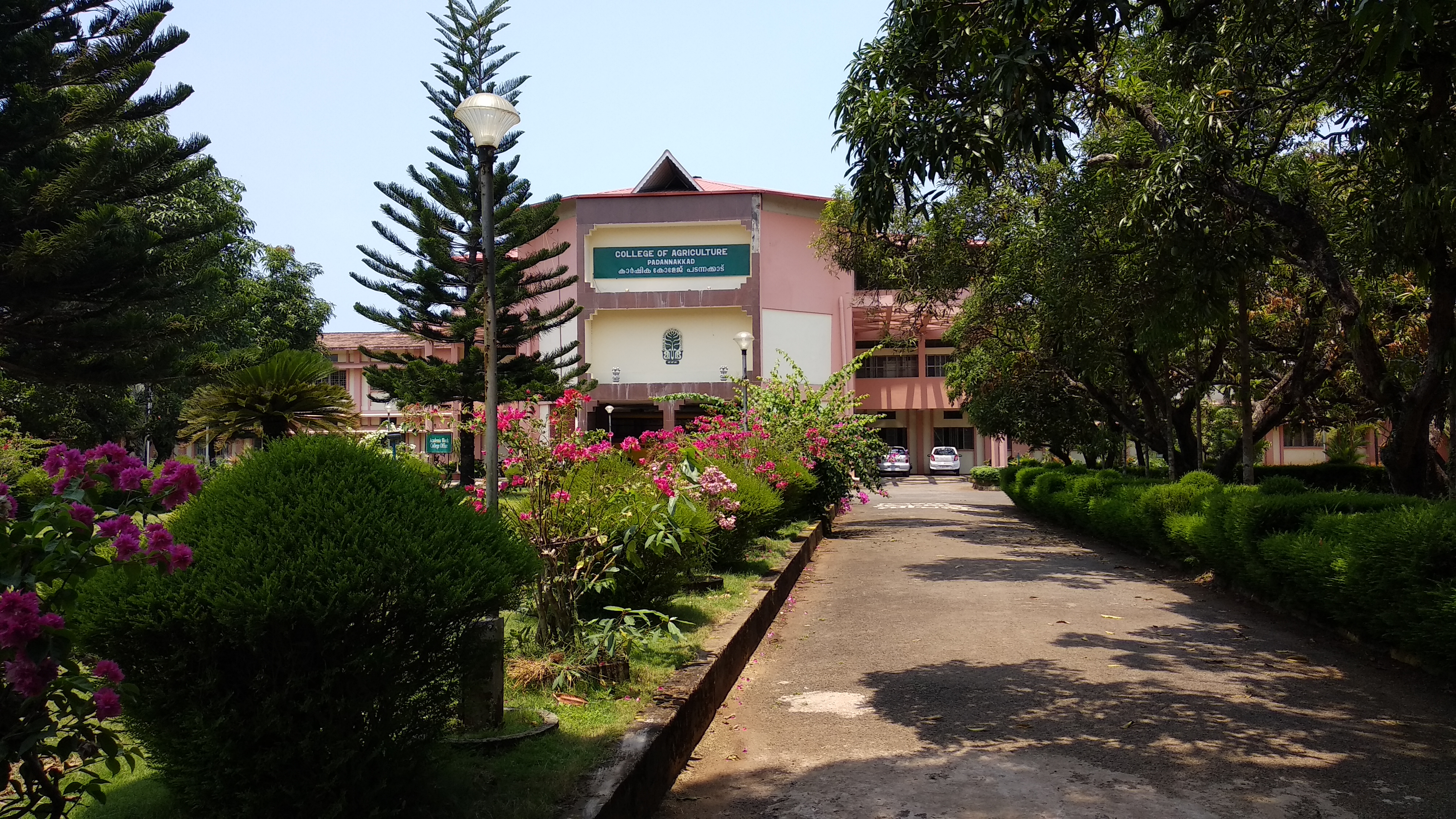 College of Agriculture Padannakkad- Entrance